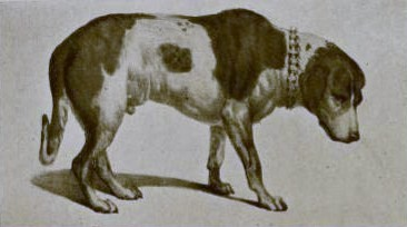 Drawing of the famous dog Barry, of the St Bernard Monastery.